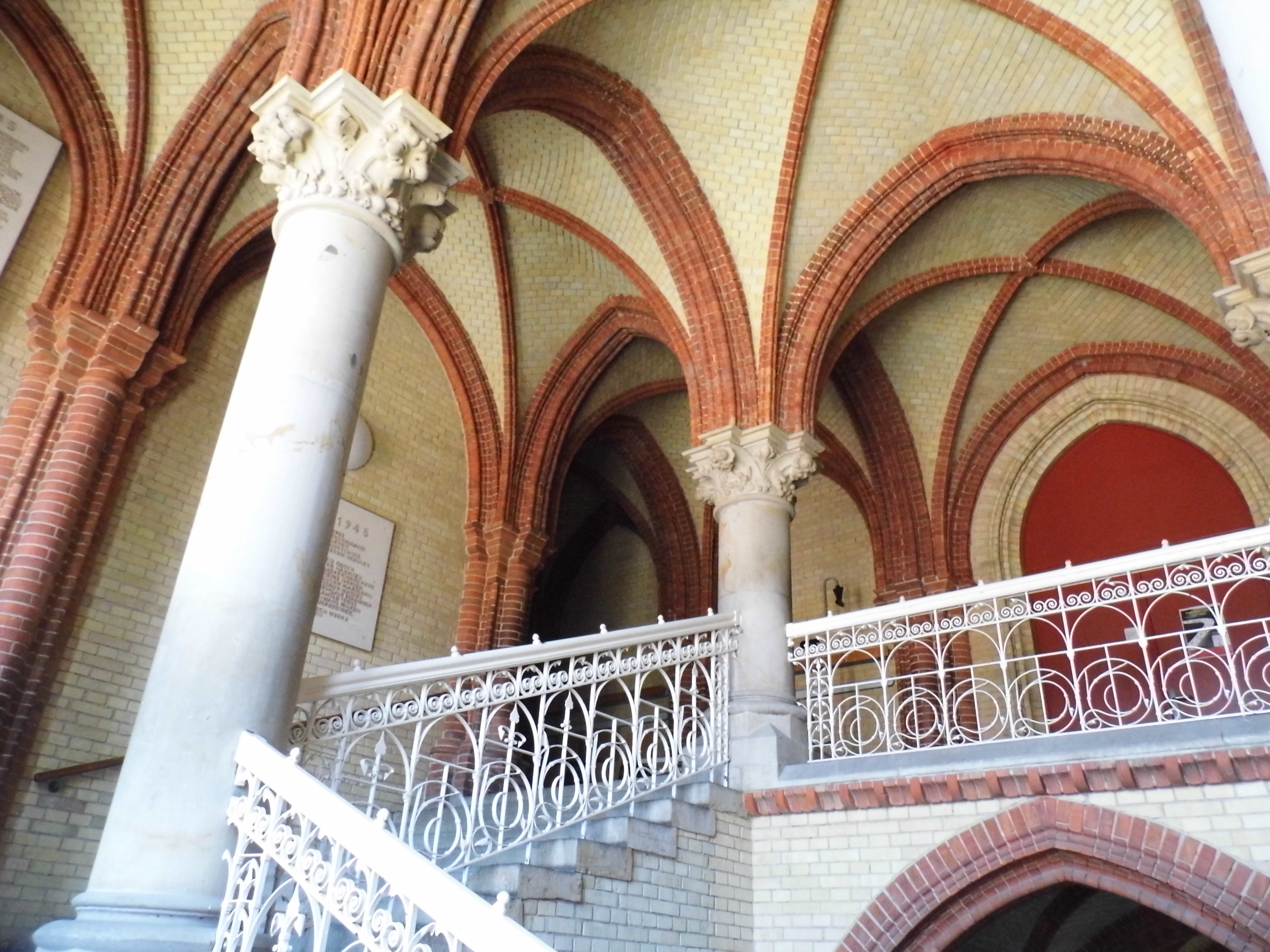 Neo-Gothic "Column hall" of the Humboldt-School Kiel, photographed on the stairs